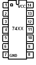 Generic 74XX TTL IC with 14 pins